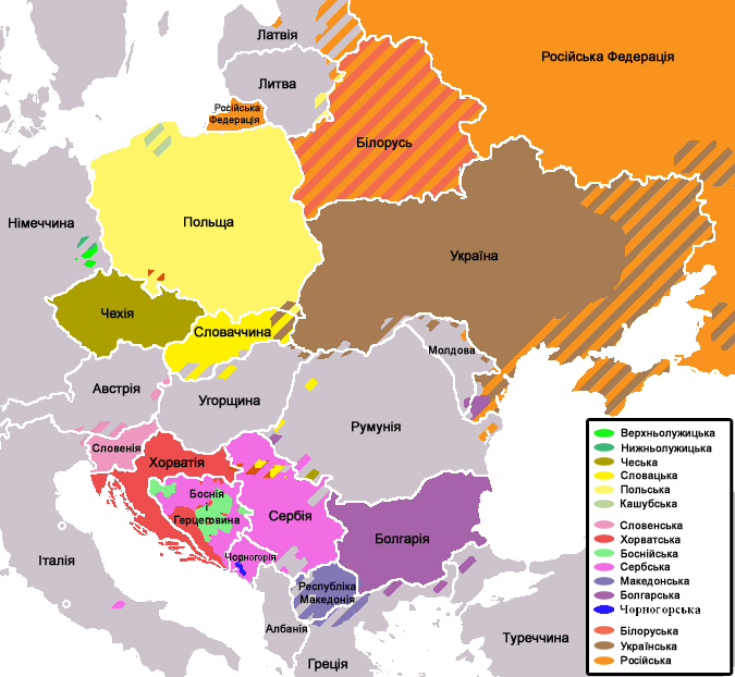 Map of Slavic languages in Ukrainian.